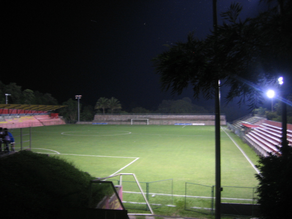 Estadio Vitoria Gasteiz de Noche